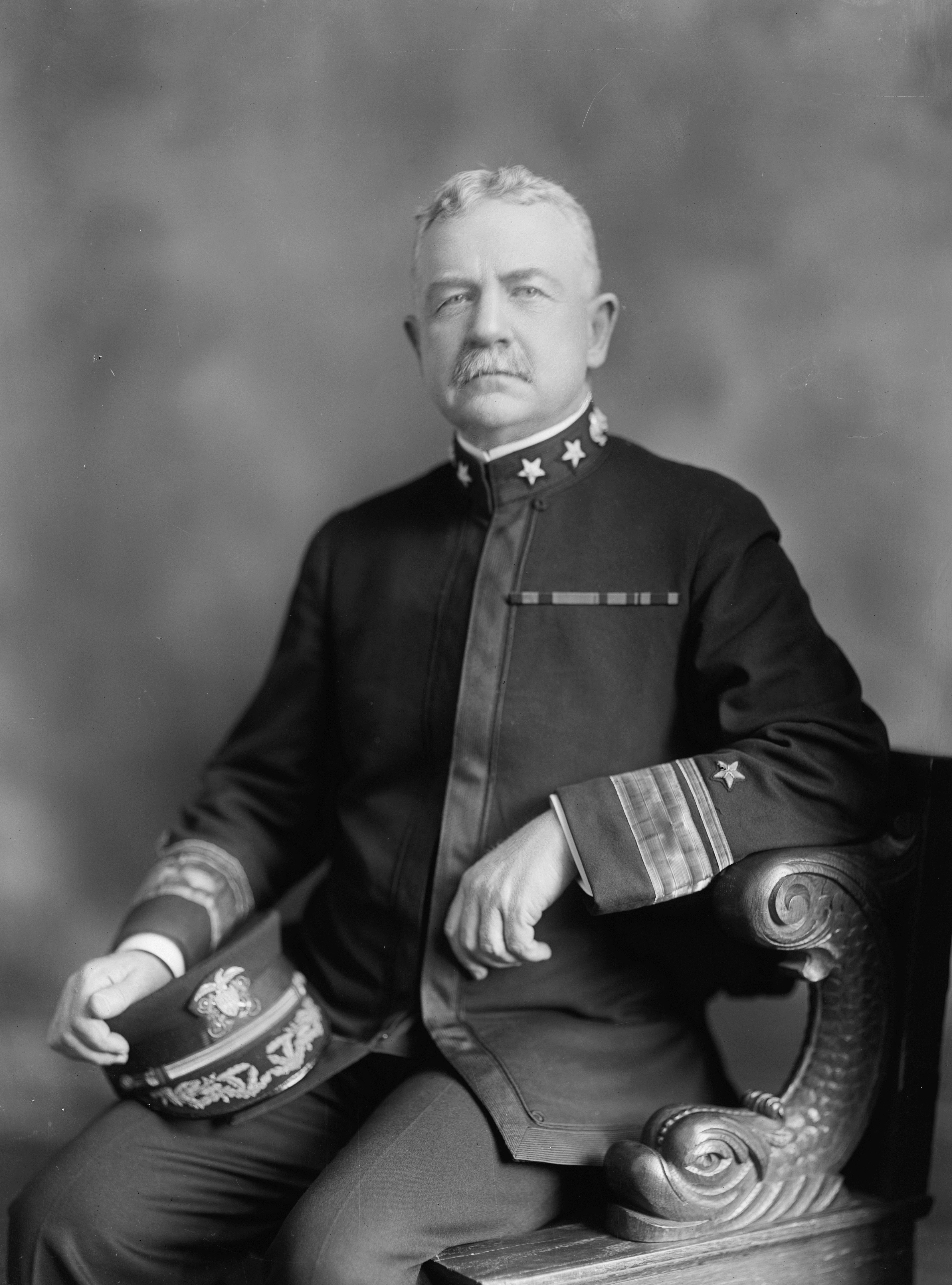 Title: Washington, Admiral Thomas Abstract/medium: Harris & Ewing photograph collection Physical description: 1 negative